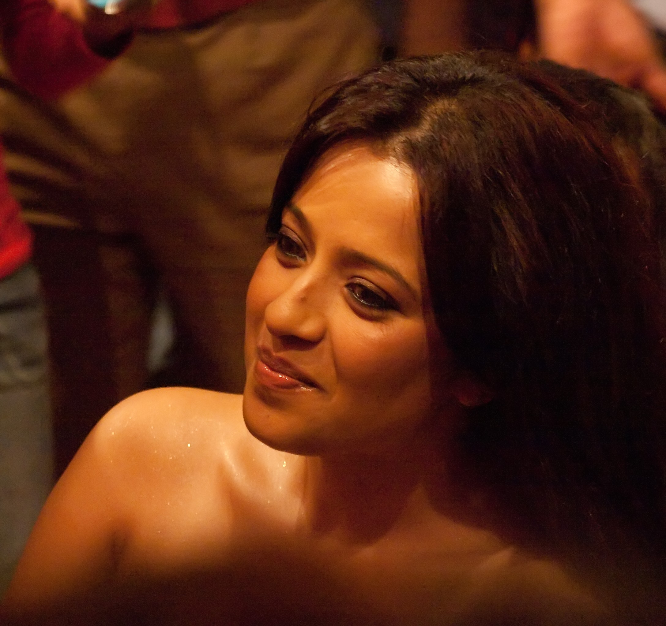 Reema sen at the Audio Release of her latest film Aayirathil Oruvan.